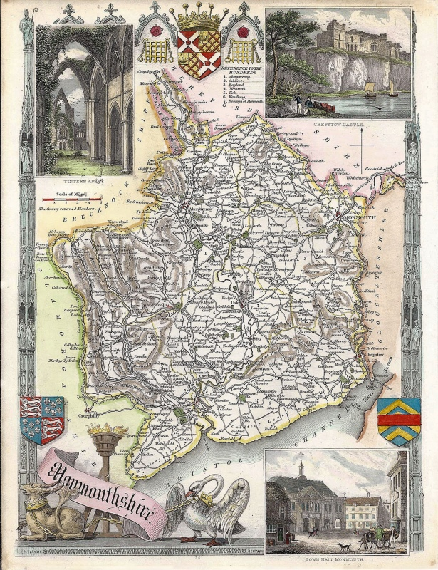 Map of Monmouthshire, showing hundreds